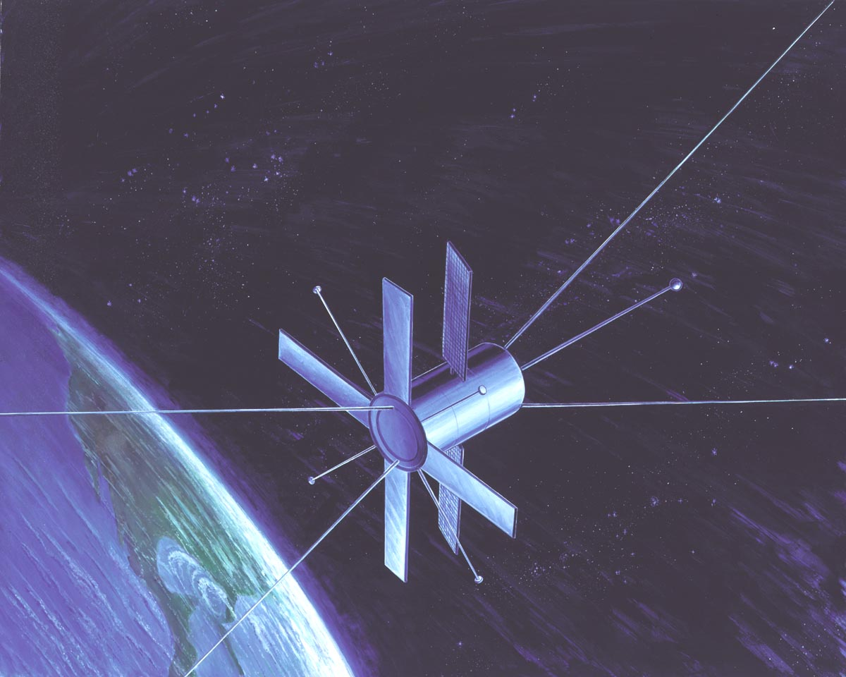 Cosmos 389 ELINT by Brian W. McMullin, 1982: This 1982 work shows the Cosmos 389 satellite, which was launched in December 1970 and performed electronic intelligence (ELINT) missions. Cosmos 389 was the first in a series of "ferret" satellites that pinpointed sources of radar and radio emissions to identify air defense sites and command and control centers. Transmitted to ground stations, the data was used for Soviet targeting and war planning.